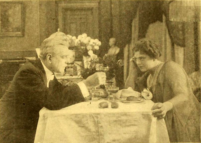 Cover of Moving Picture World, The White Raven (1917) with William B. Davidson and Ethel Barrymore.